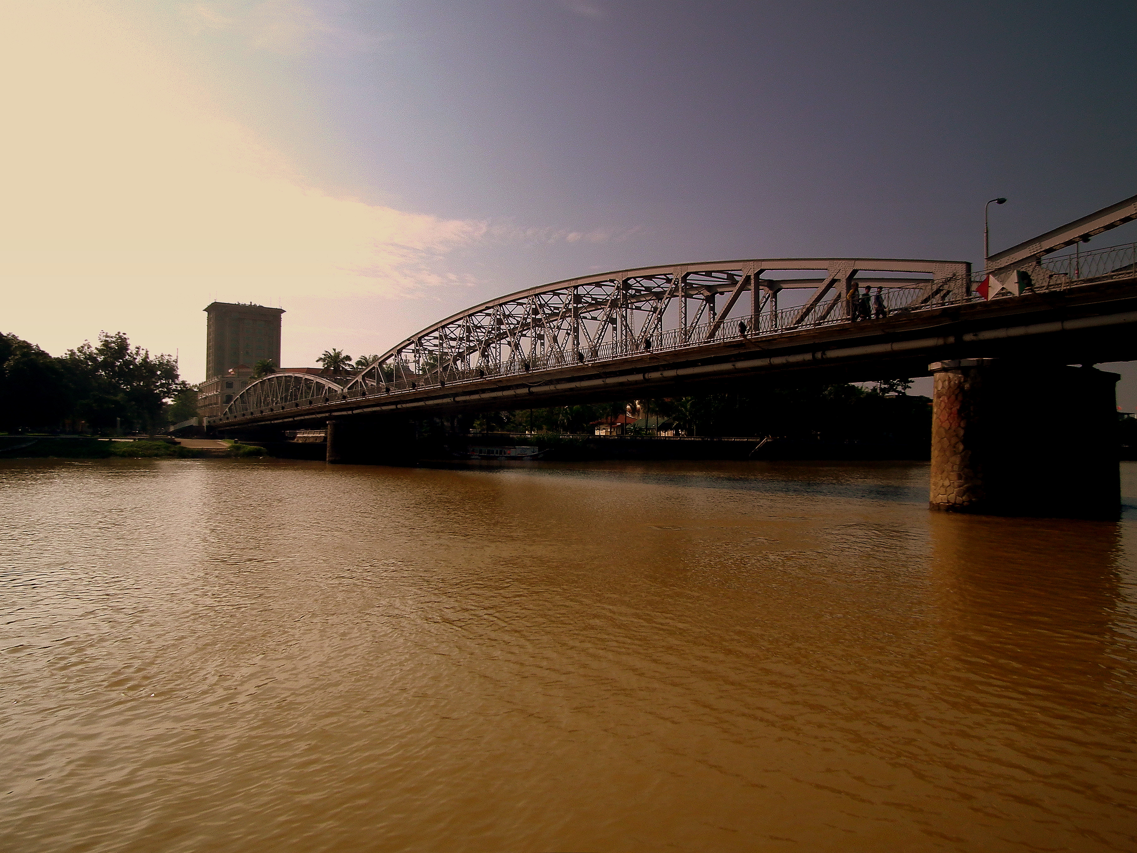 PERFUME RIVER BRIDGE HUE VIETNAM OCT 2010